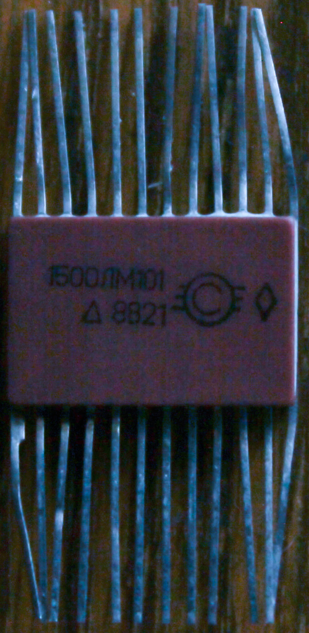 Integrated circuit 1500LM101, equivalent to F100101 (quad 2-input ECL NOR/OR), manufactured at Svetlana in 1988